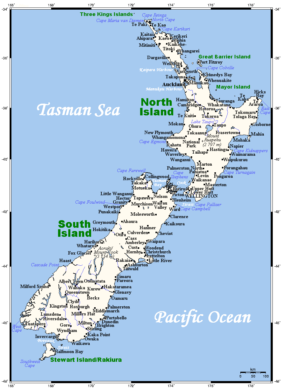 A map showing New Zealand's cities, main towns, selected villages, rivers and its highest peaks. This map's source is here, with the uploader's modifications, and the GMT homepage says that the tools are released under the GNU General Public License.